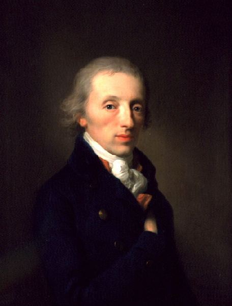 portrait of Christian Ludwig Stieglitz (1756–1836)